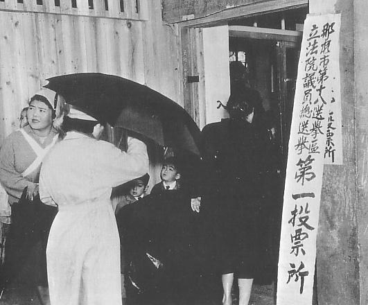 First Ryukyuan Legislature General Election